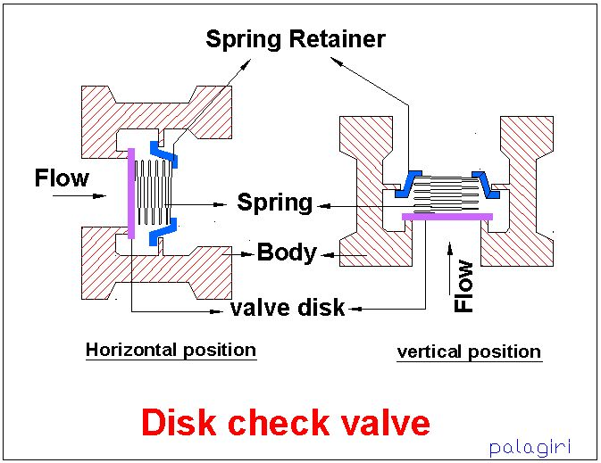 spring loaded disk check valve.It works in all postions